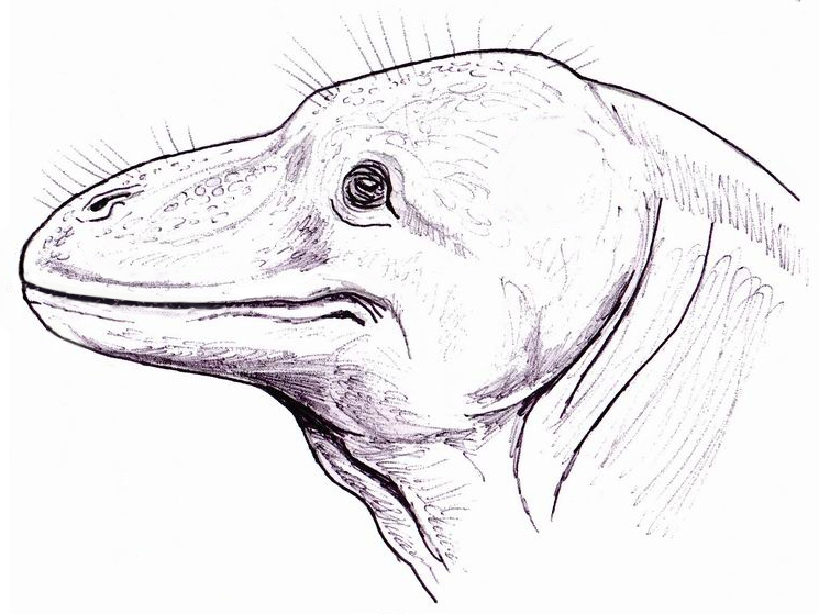 Taurocephalus lerouxi